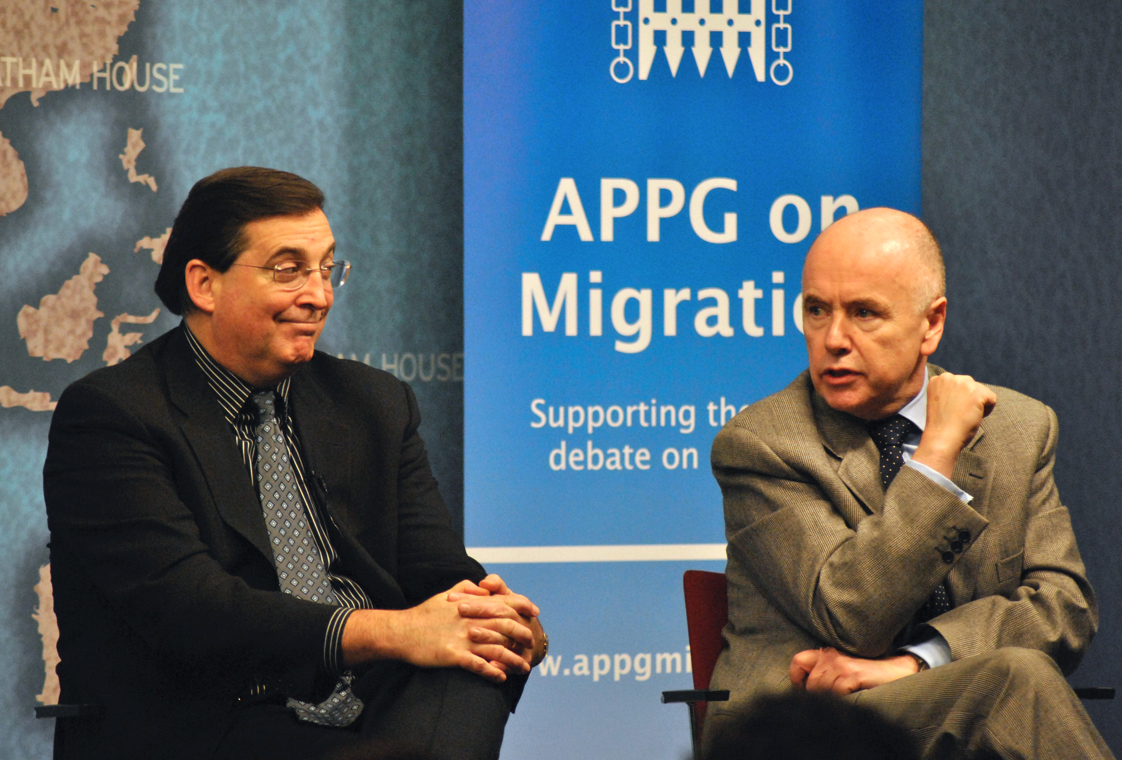 Global Migration: The Challenges for the West's Political Leaders, November 15 2011